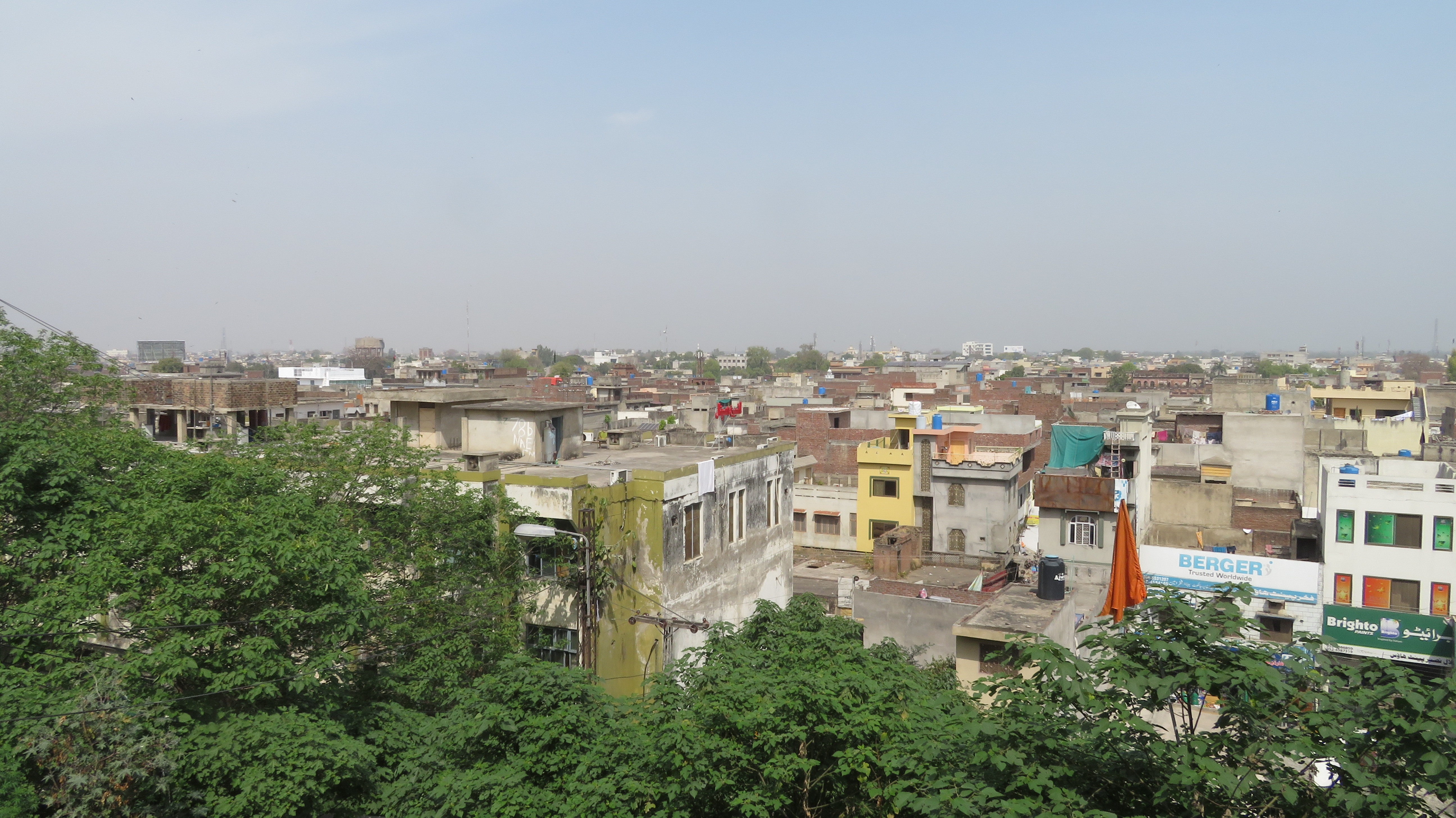 Sialkot, Centre